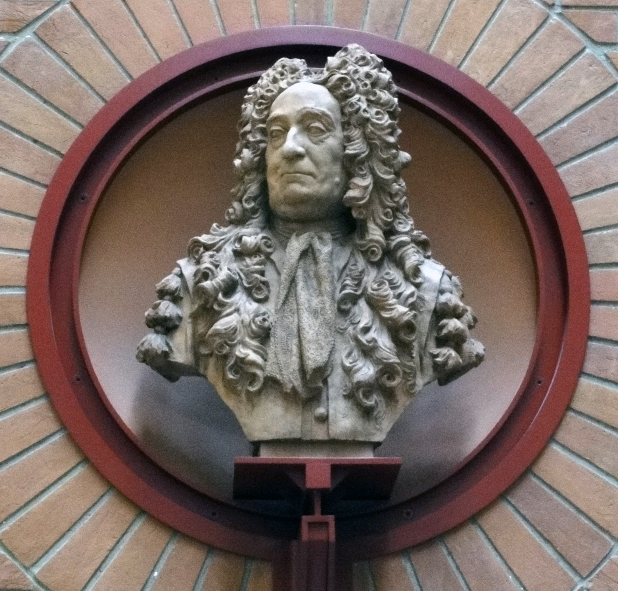 Bust of Hans Sloane on display in the main foyer of the British Library (middle upper right hand side from the main public entrance) created by Michael Rysbrack.